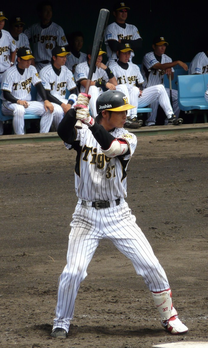 Hanshin Tigers/Masashi Nohara